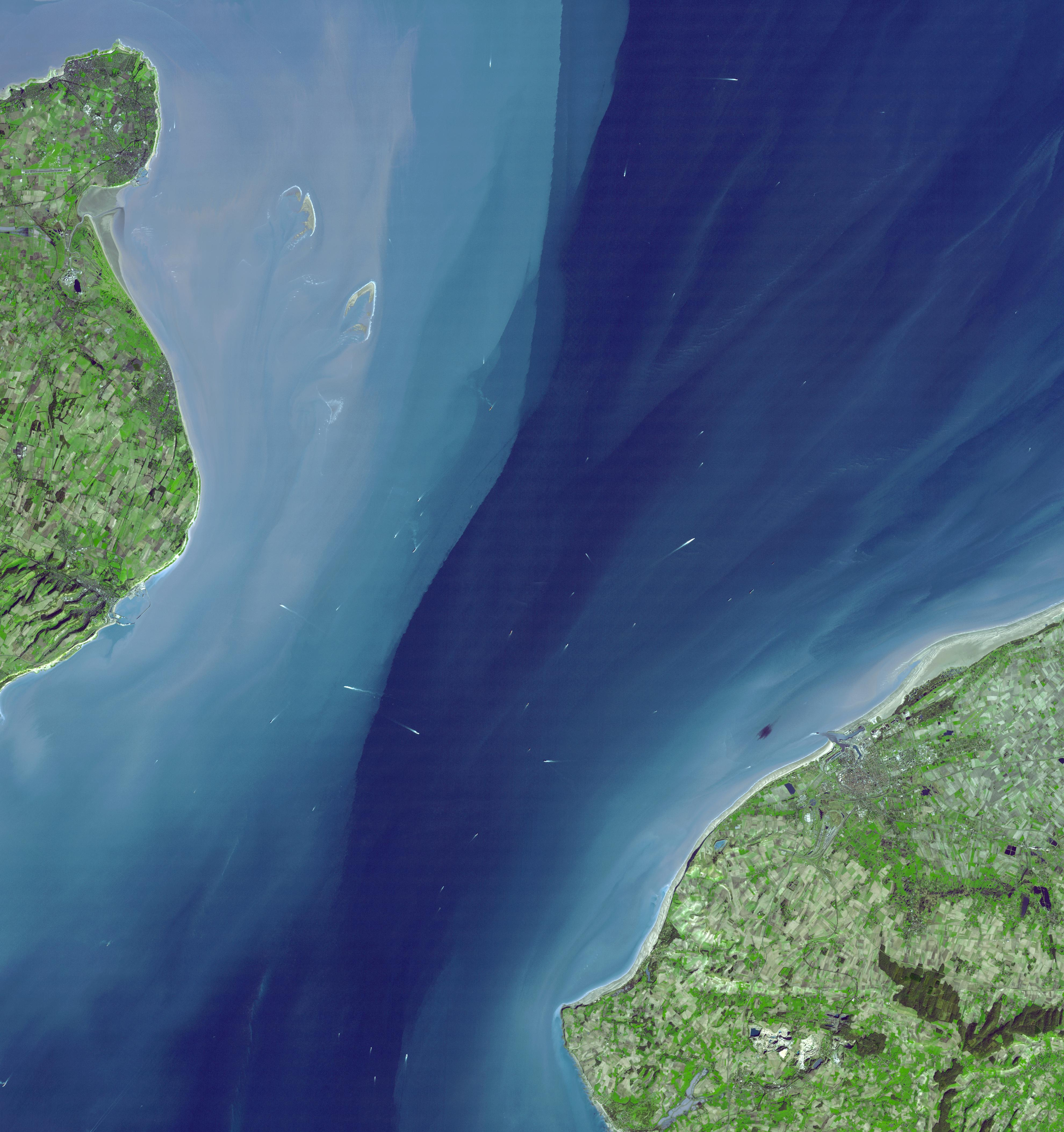 The strong pull of tidal currents sweeps water from the North Sea and the Atlantic Ocean through the narrow Strait of Dover. Resembling water-marked taffeta, the fast-moving water is streaked white, pale blue, turquoise, and royal blue in this image, taken by the Advanced Spaceborne Thermal Emission and Reflection Radiometer (ASTER) on NASA’s Terra satellite on March 14, 2001. The water is colored by the characteristic white chalk that forms the soil of this region. The white, chalky soil reflects light, giving the water its pale color near shore. Aside from the color of the water, the chalk is evident along the shoreline, where tall, white cliffs rise on both the English and French side of the channel. On the British side, these geological formations are the famous White Cliffs of Dover.